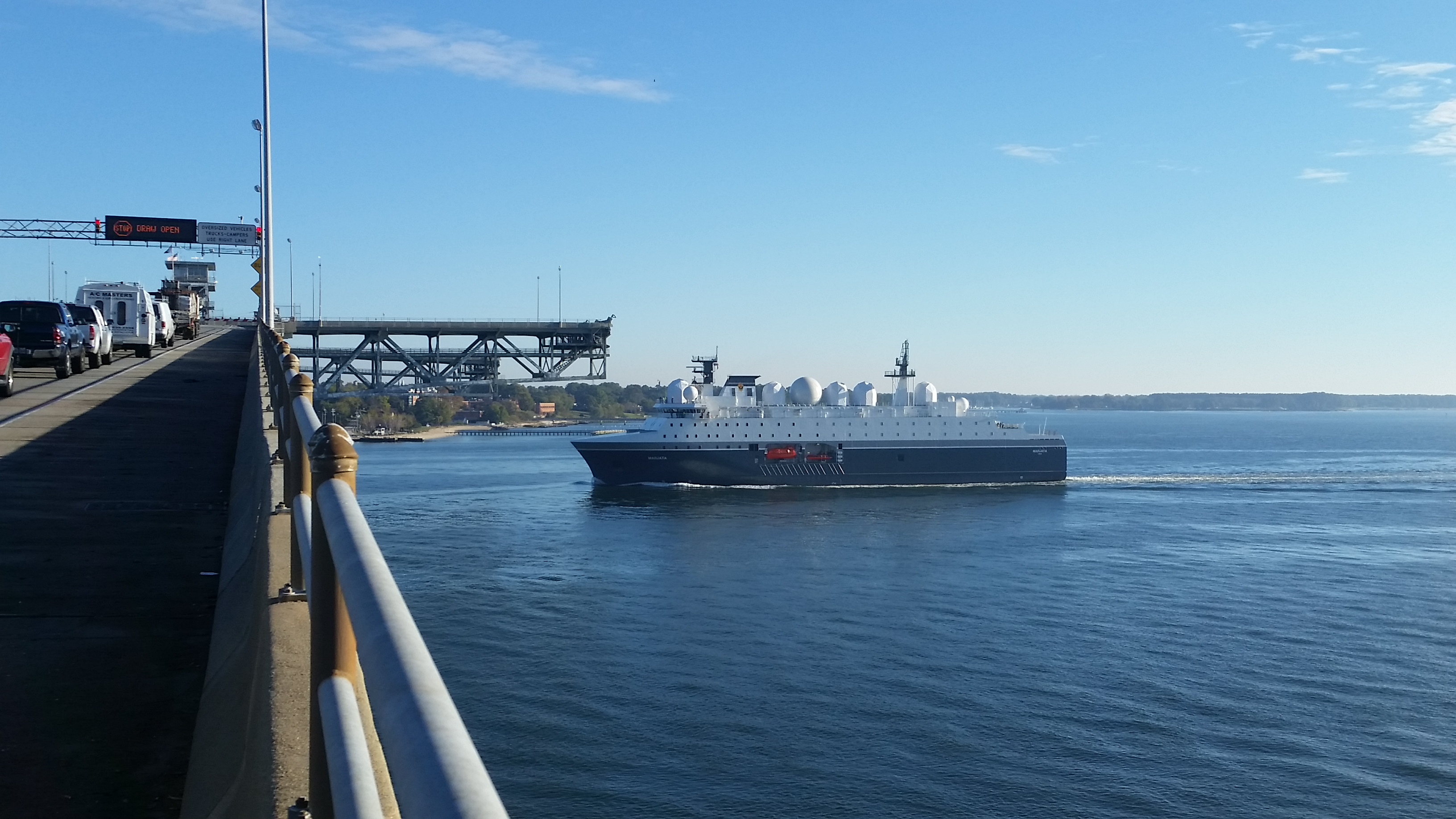 Marjata IV going up York River to Naval Weapons Station on November 3, 2015